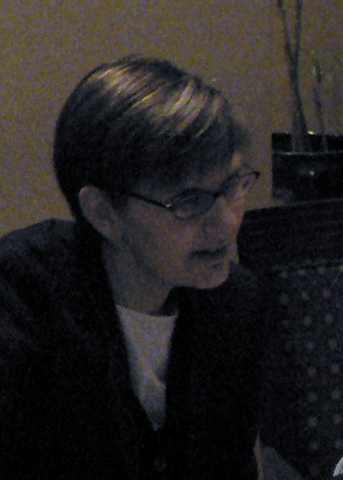 Wanda Orlikowski in 2008